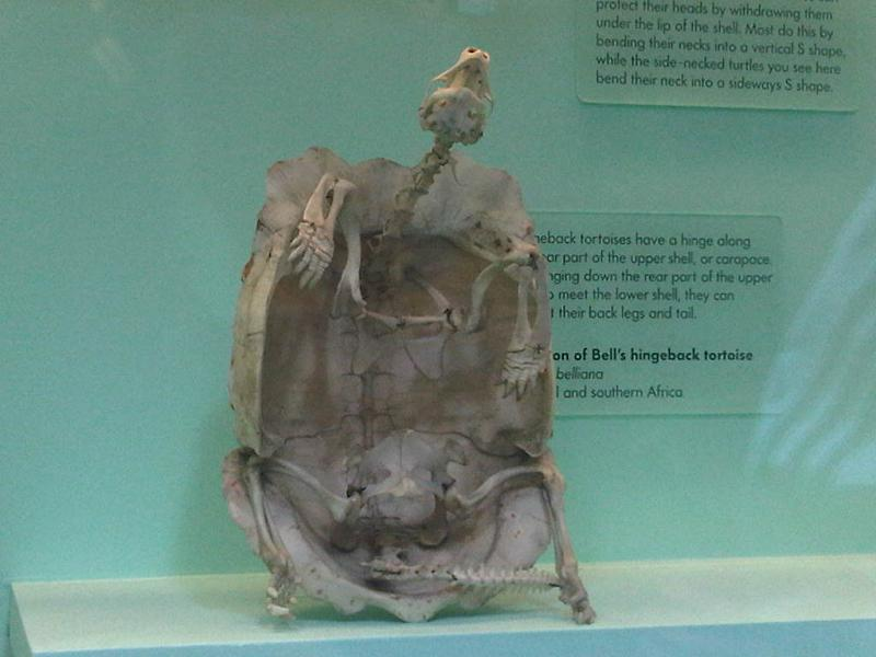 Bell's hinge-back tortoise (Kinixys belliana) skeleton at the Natural History Museum in London, England.